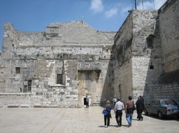 The Church of the Nativity in Bethlehem; exterior. / Crkva Rođenja Isusova u Betlehemu, pročelje.